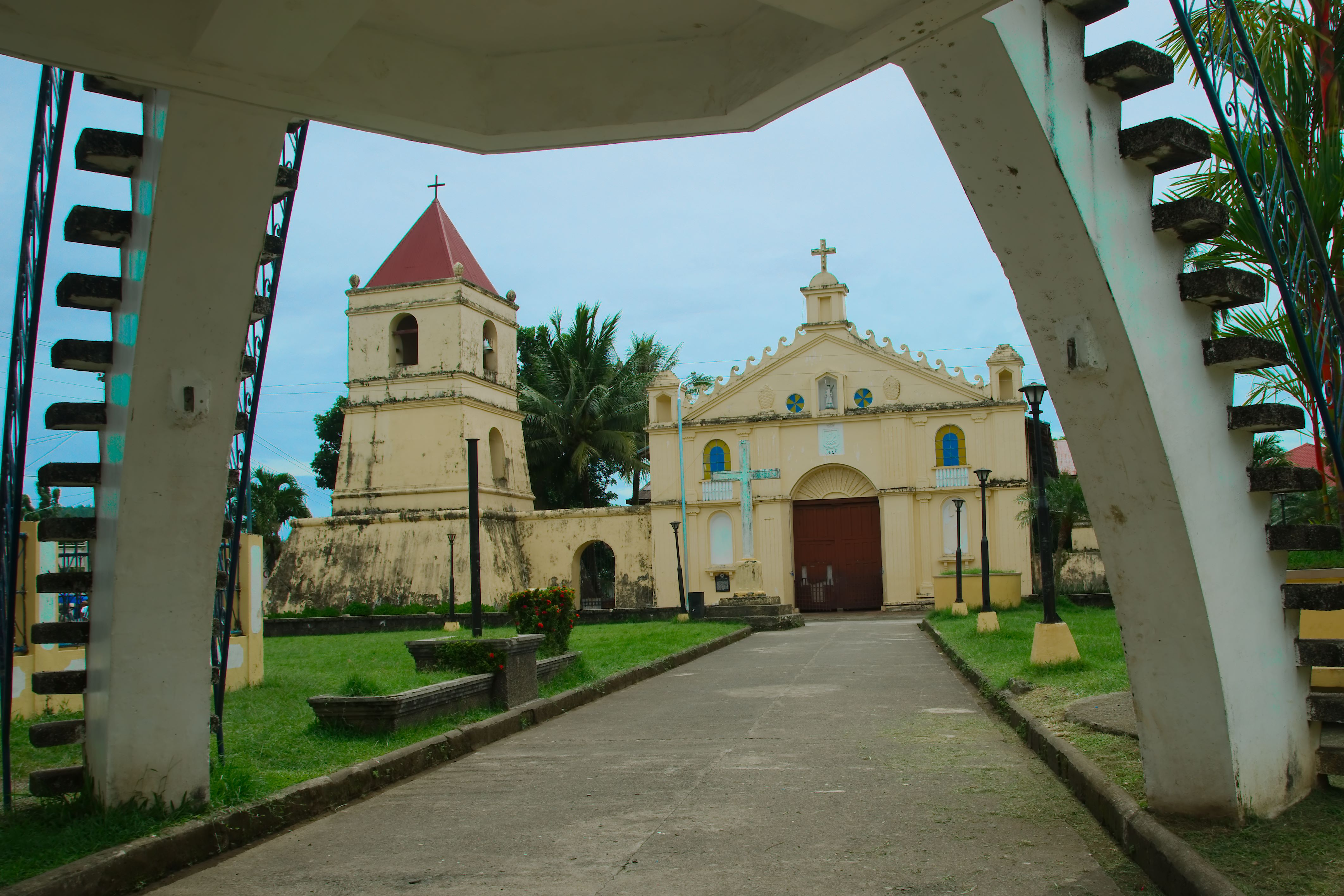 Balangiga, Eastern Samar